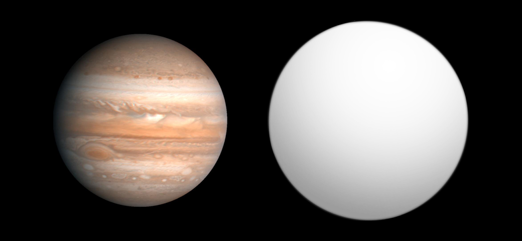 Comparison of best-fit size of the exoplanet HD 189733 b with the Solar System planet Jupiter, as reported in the Extrasolar Planets Encyclopaedia[1] as of 2010-10-03. ↑ Extrasolar Planets Encyclopaedia (2010-09-30). Retrieved on 2010-10-03.